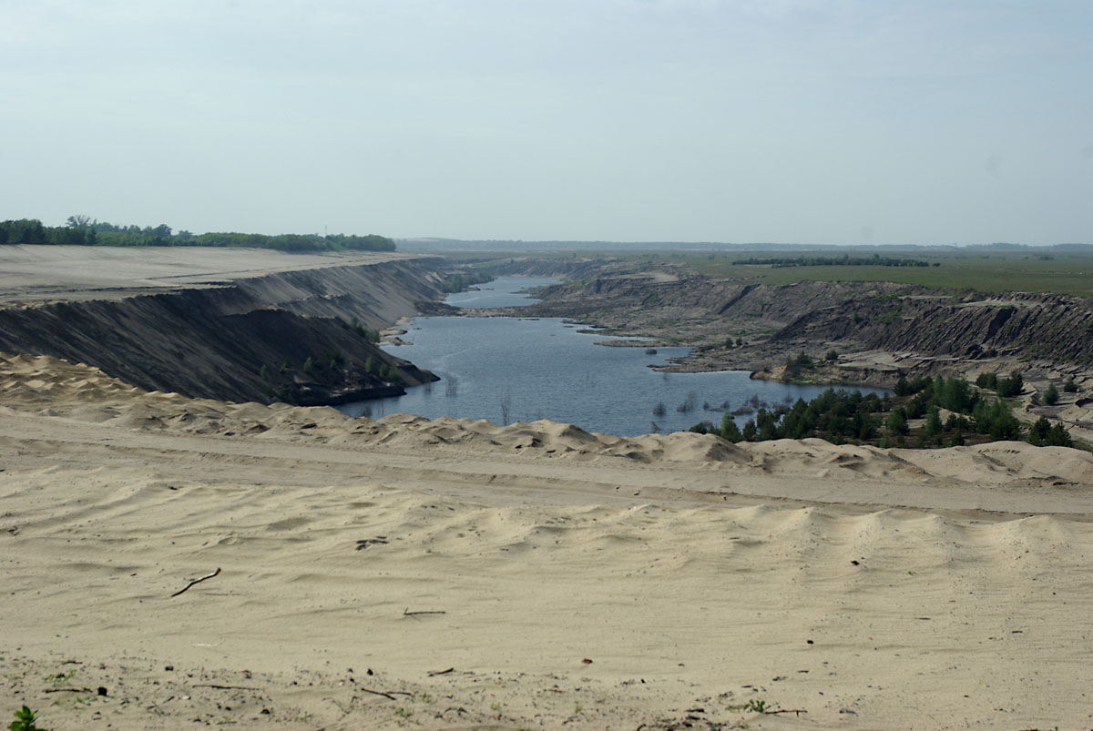 Opencast pit „Cottbus Nord“